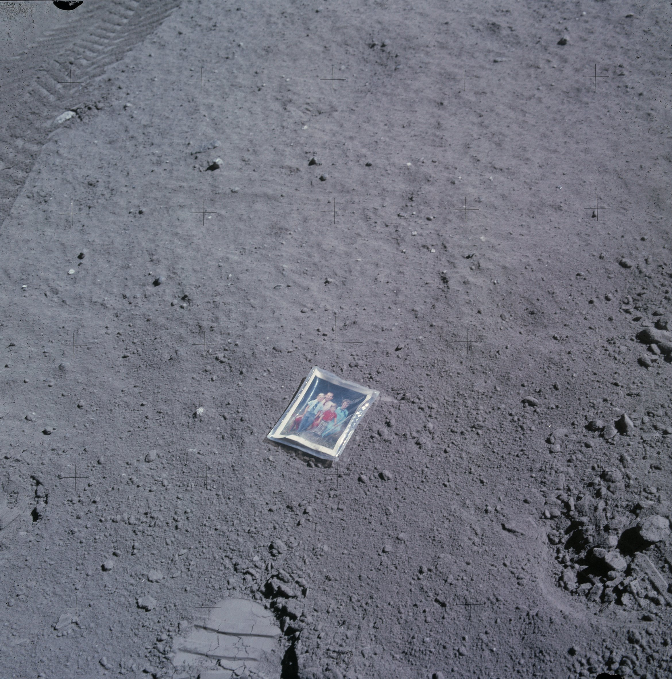 Charlie Duke's family portrait left on the surface of the moon. Cat Crater at Station 14 was named for sons Charles And Tom. Dot Crater at Station 16 was named for his wife.